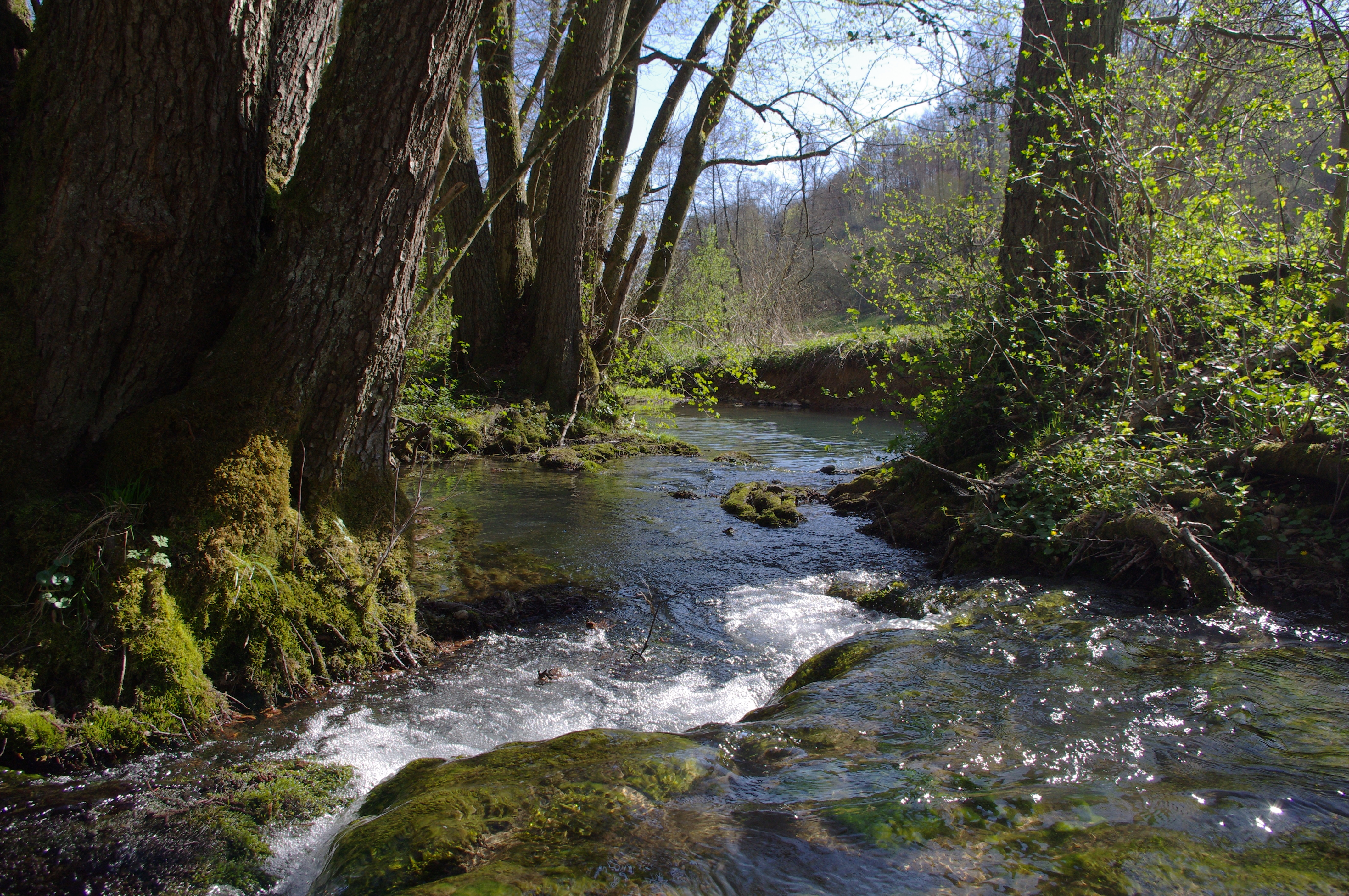 The lower Fischbach at the village of Sennfeld, township of Adelsheim, district Neckar-Odenwald-Kreis in Germany.